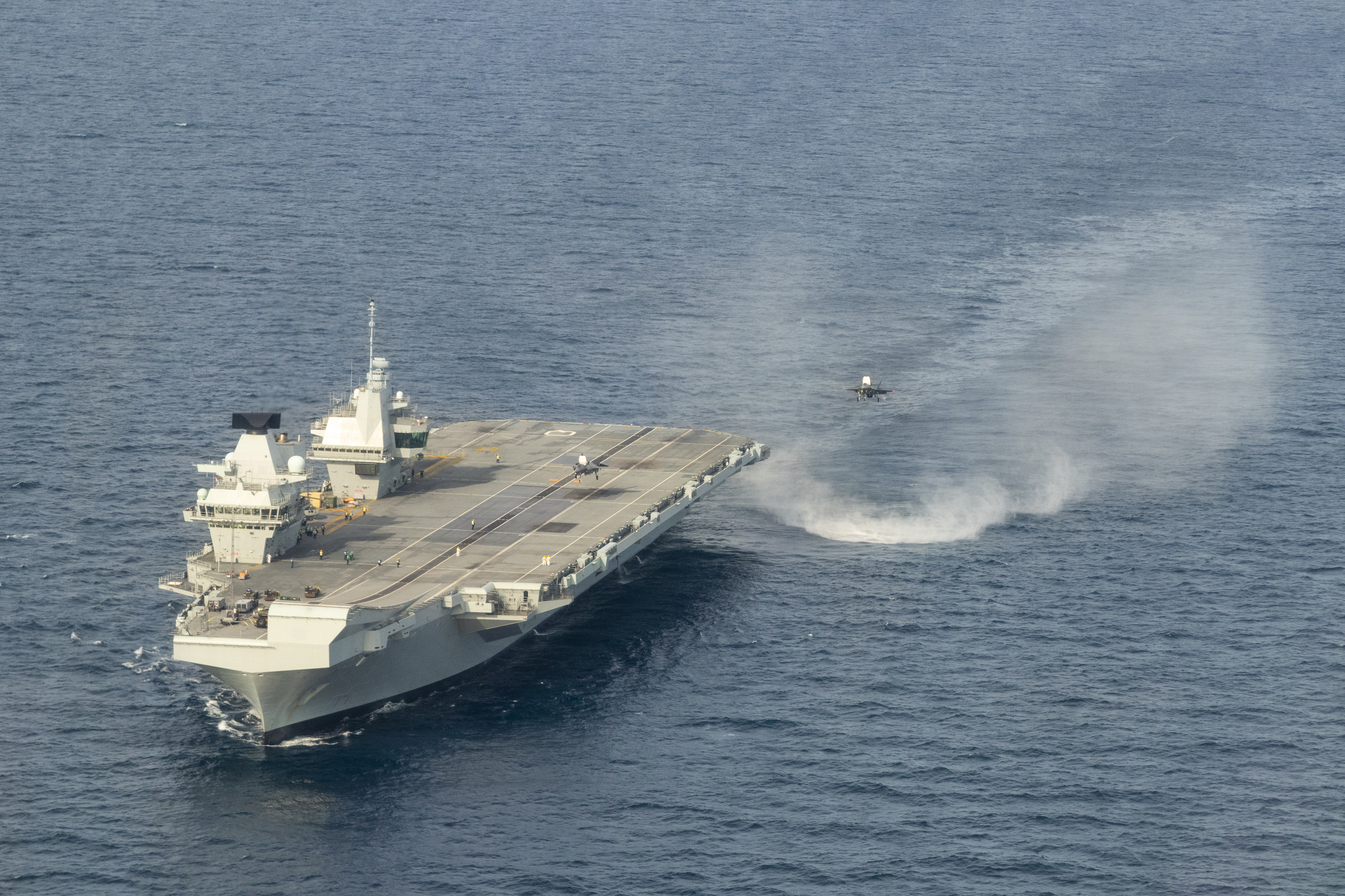 Two F-35B Lightning II aircraft from the F-35 Integrated Test Force (ITF) successfully landed onboard HMS Queen Elizabeth on 1 November 2018 marking the beginning of the second phase of Development Testing (DT-2) of first-of-class flying trials (FOCFT). Over the next month they will continue to lay the foundation for the next 50 years of fixed wing aviation in support of the UK’s Carrier Strike Capability by concentrating on external stores testing, minimum performance short take-offs and shipboard rolling vertical landings, and night operation. Maj Michael ‘Latch’ Lippert, USMC landed first in BF-04 and was followed by Mr. Peter ‘Wizzer’ Wilson in BF-05. Both ITF test pilots are based at Naval Air Station Patuxent River, Maryland. BF-4 Test 0891 / Flight 528 BF-5 Test 0767 / Flight 385